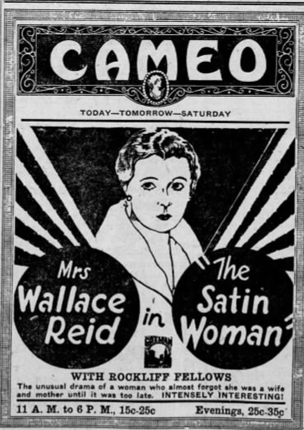 Cameo Theater advertisement for the American film The Satin Woman (1927) - 5 Jan 1928 Morning Call - Allentown PA